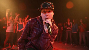 Manafest at Cornerstone Festival in 2010